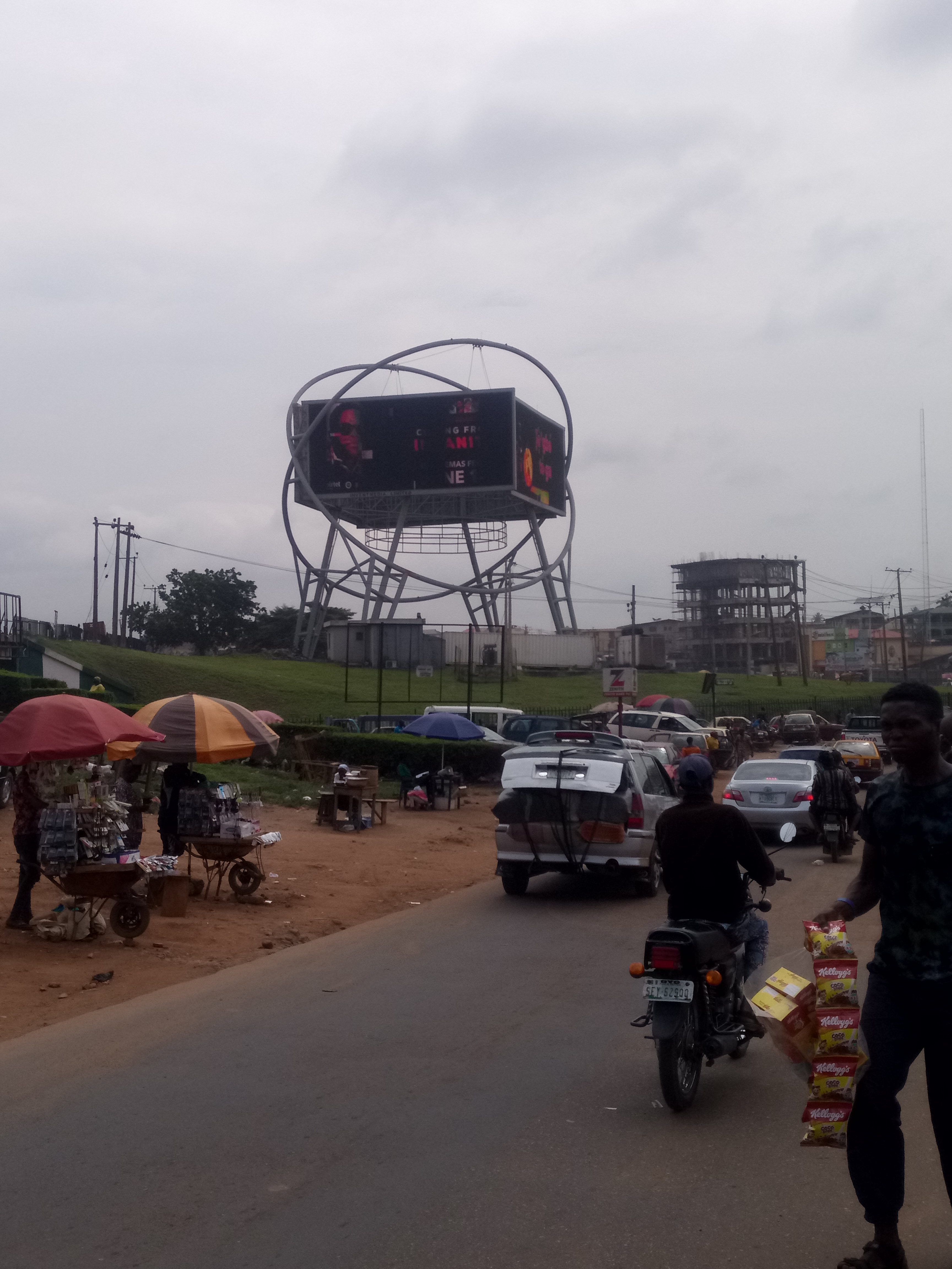 Iwo Road, Ibadan, Oyo State This media shows a cultural heritage object of Nigeria with the Wikidata-ID: d: {1 }| {1 }